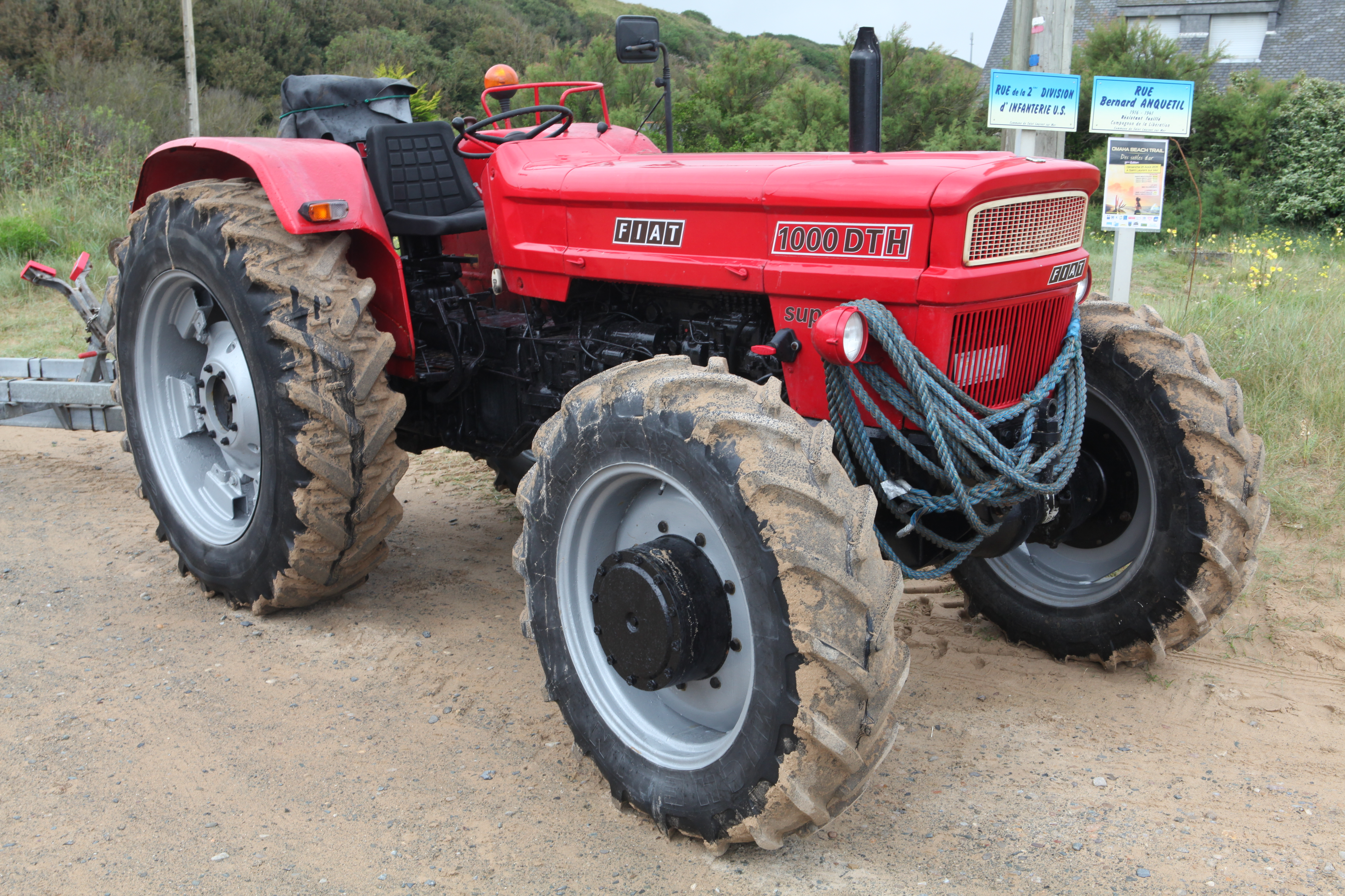 Fiat 1000 DT H super tractor